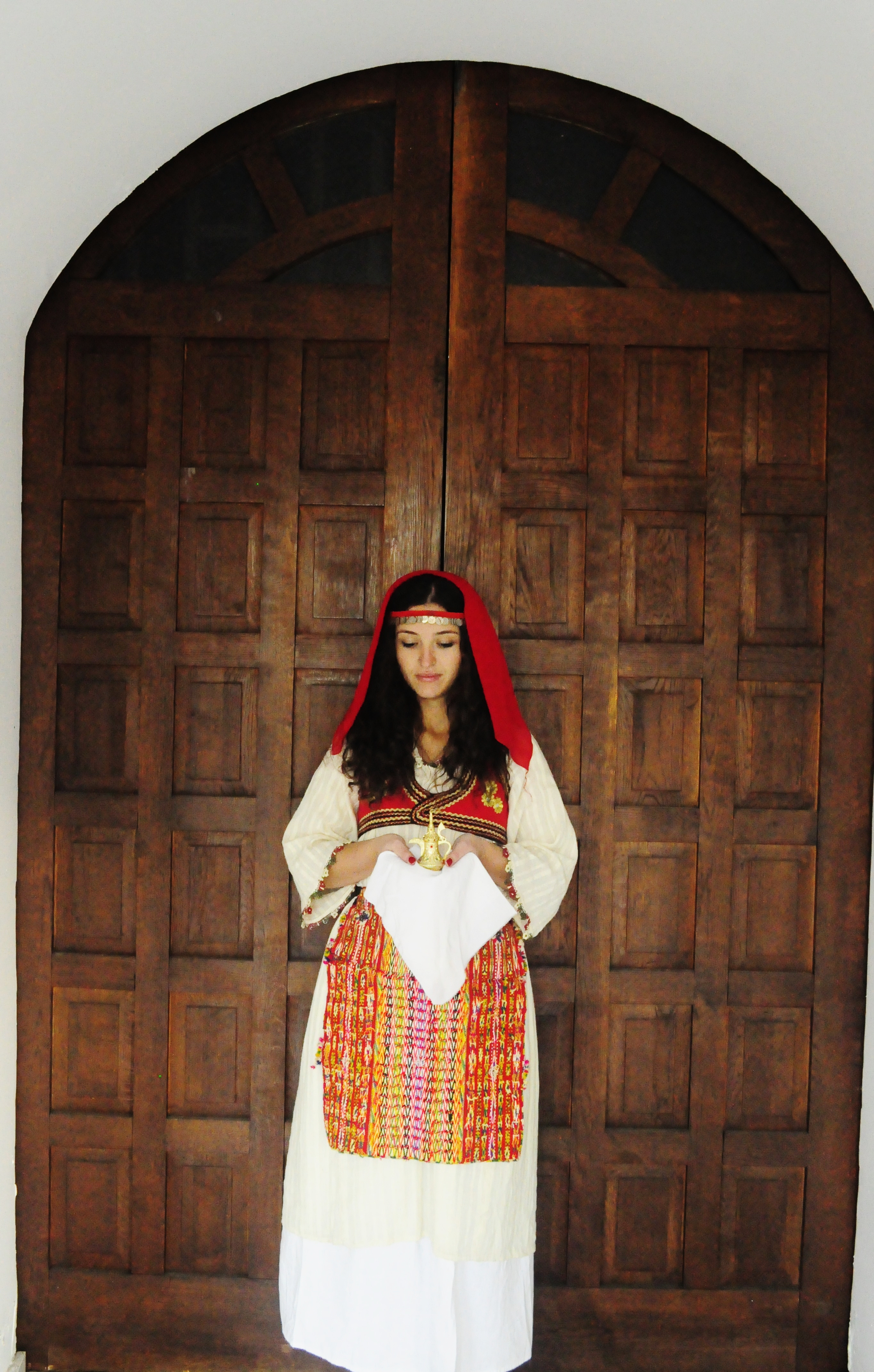 This photo was taken at the Museum of Kosova, and the girl is wearing traditional costumes of kosova.